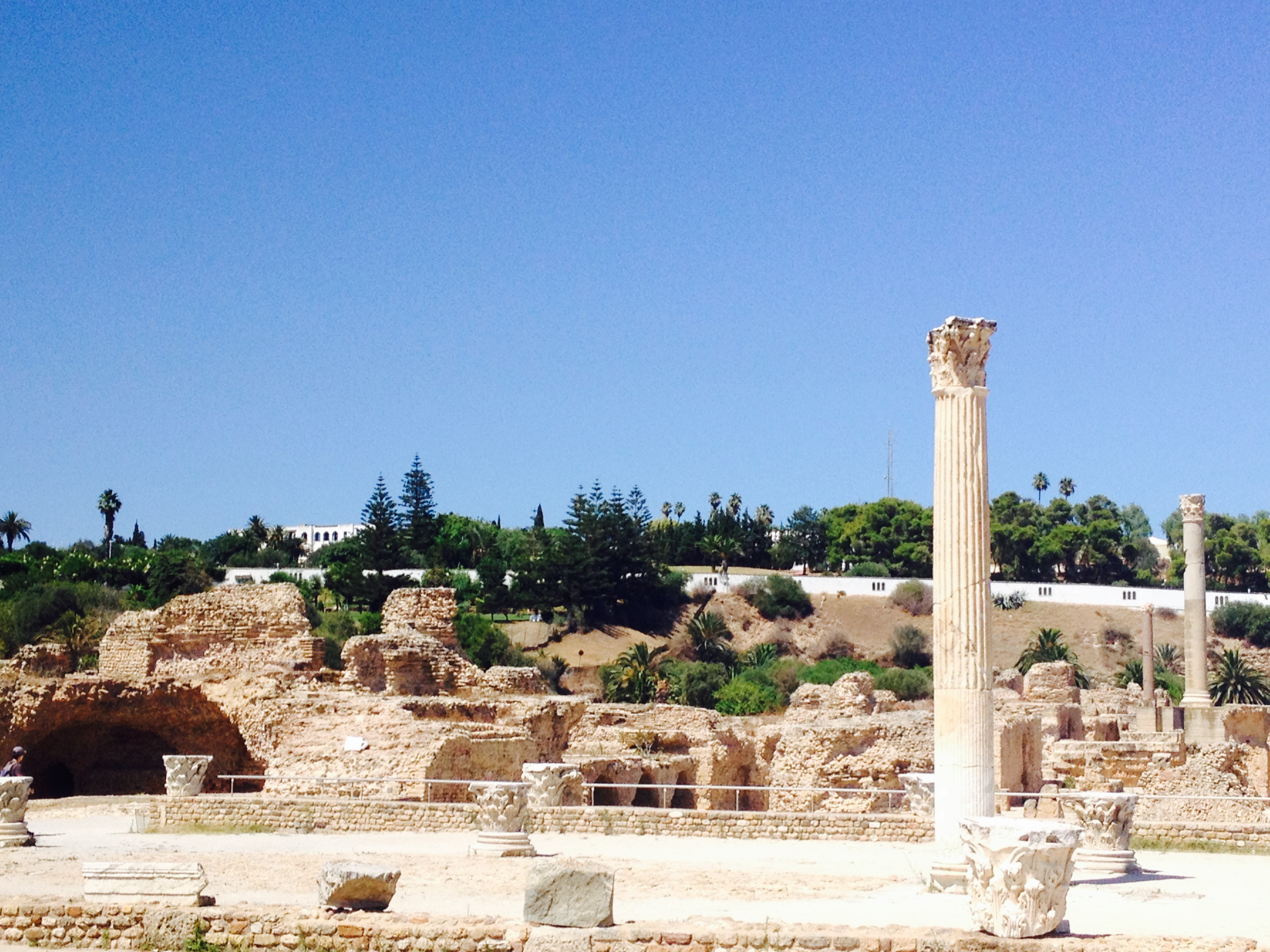 Carthage/ Carthago was the centre or capital city of the ancient Carthaginian civilization.